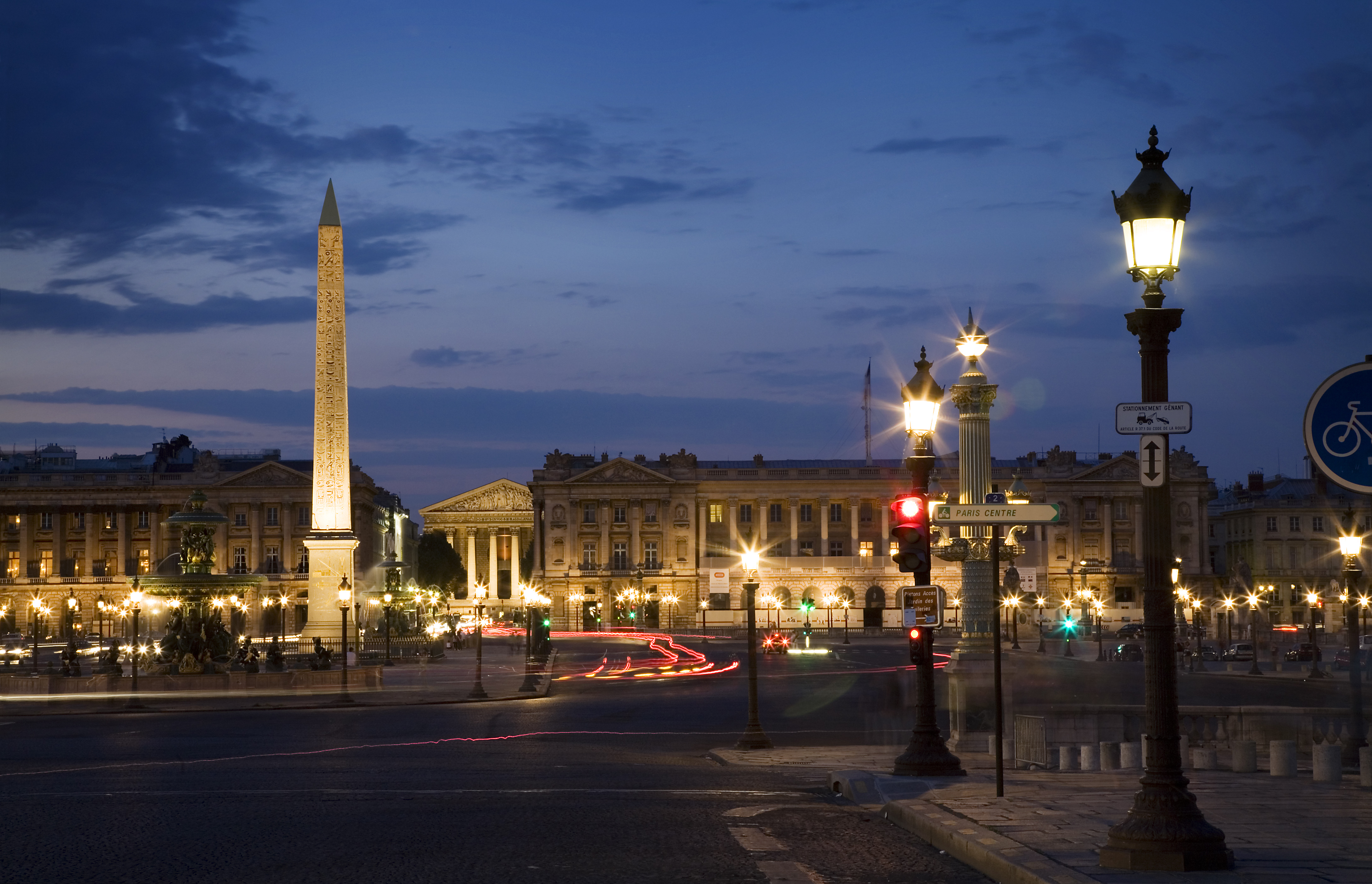 Place de la Concorde, Paris